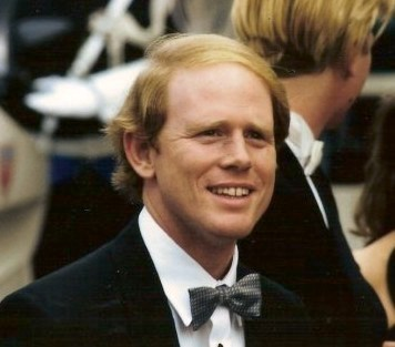 Ron Howard at the Cannes film festival